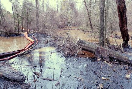 Mayflower oil spill - creek